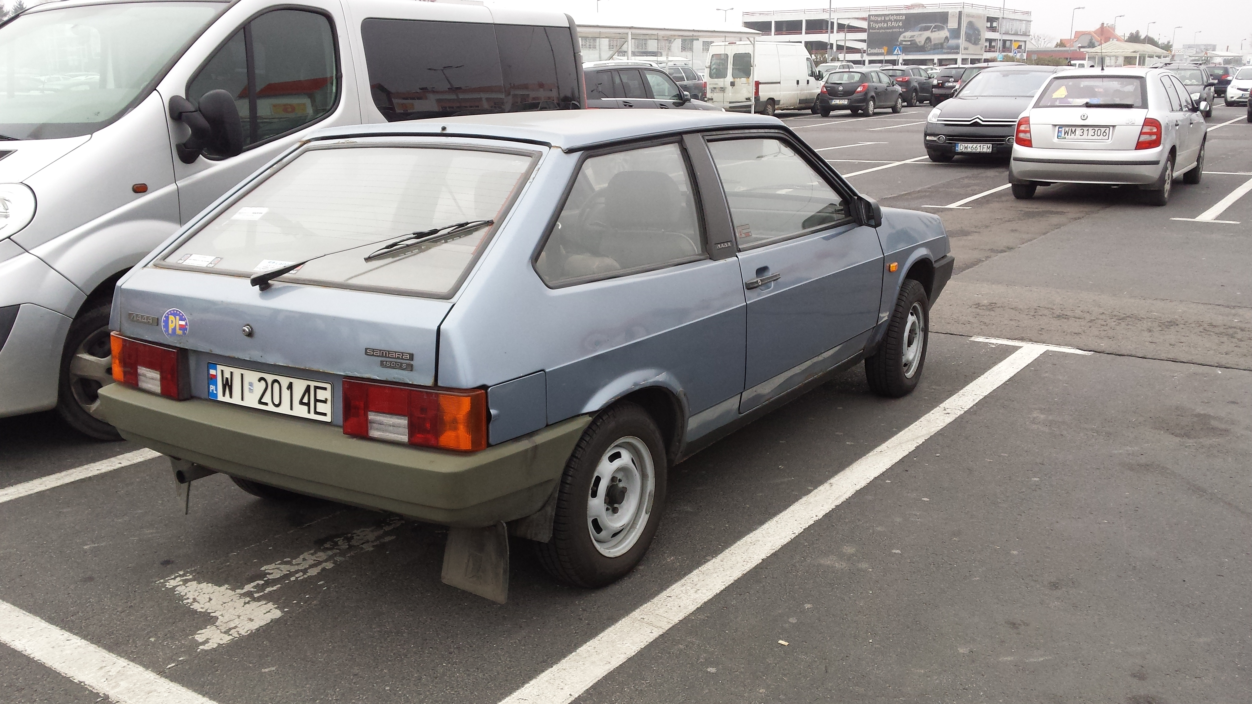 Lada Samara 2108 in Piaseczno